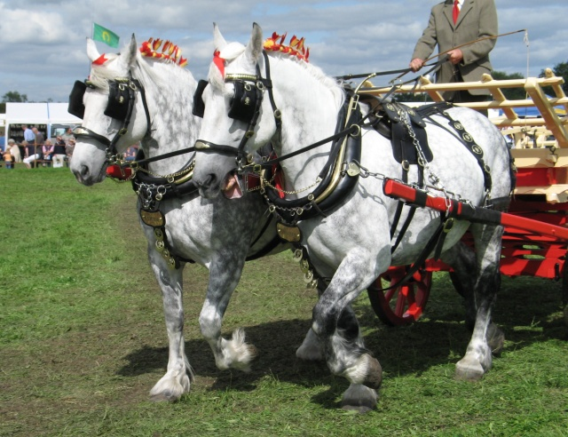 Great Bucks Steam Rally, Shabbington, 2009 Heavy horses.